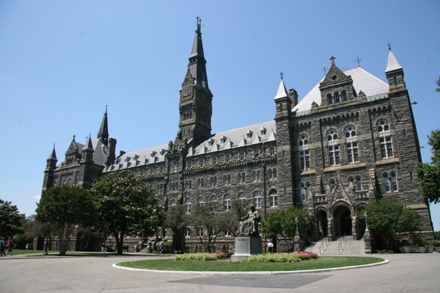 Healy Hall, main building of Georgetown University in Washington, DC